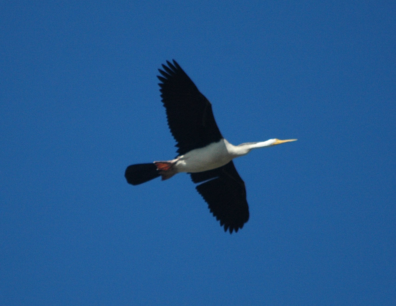 Australian Darter female (Anhinga novaehollandiae) Bowra, SW Queensland, Australia